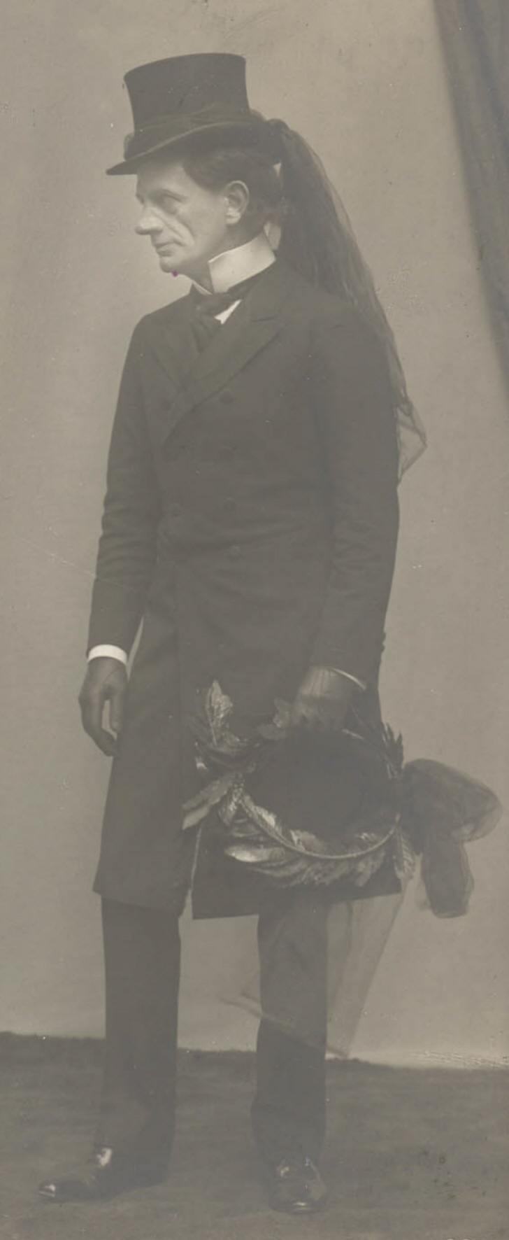 Joseph Giampietro (1866-1913), Austrian actor, in costume for his role in the revue Halloh!